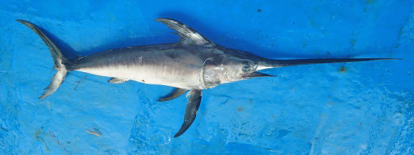 Xiphias gladius collected in Pakistan